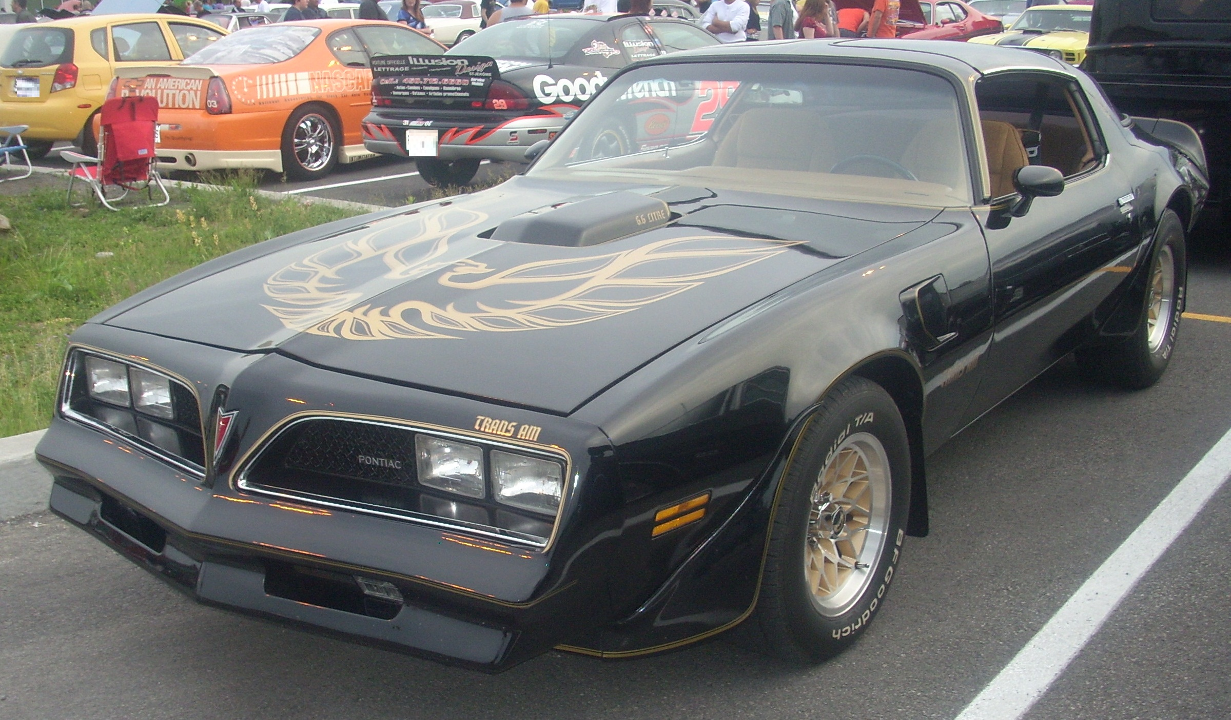 1978 Pontiac Trans Am photographed in Laval, Quebec, Canada at Centropolis Laval.